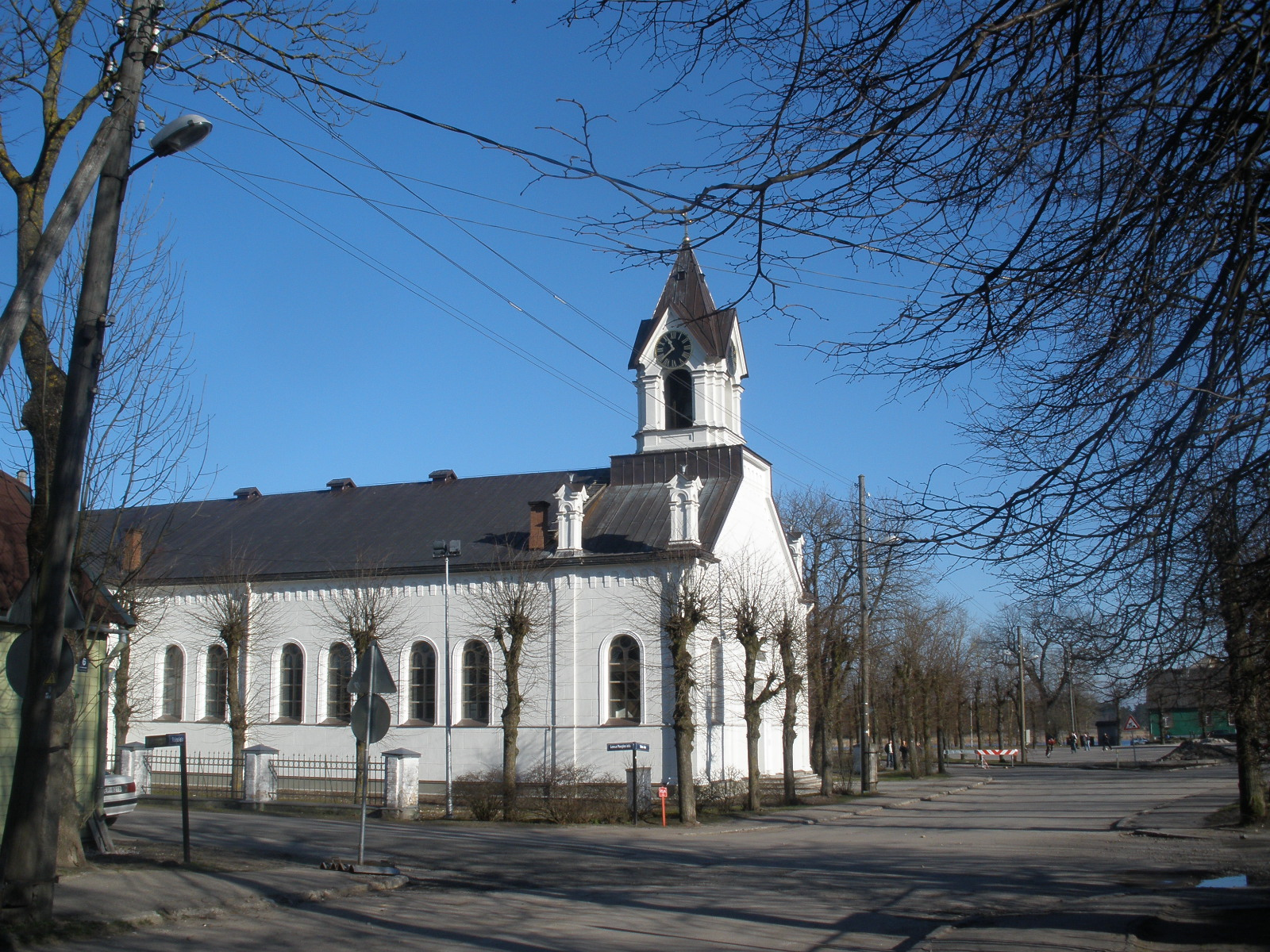 Lutheran church in Sloka, Jūrmala (Latvia)